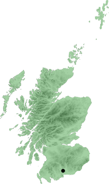 location of town of Lockerbie (Scotland)